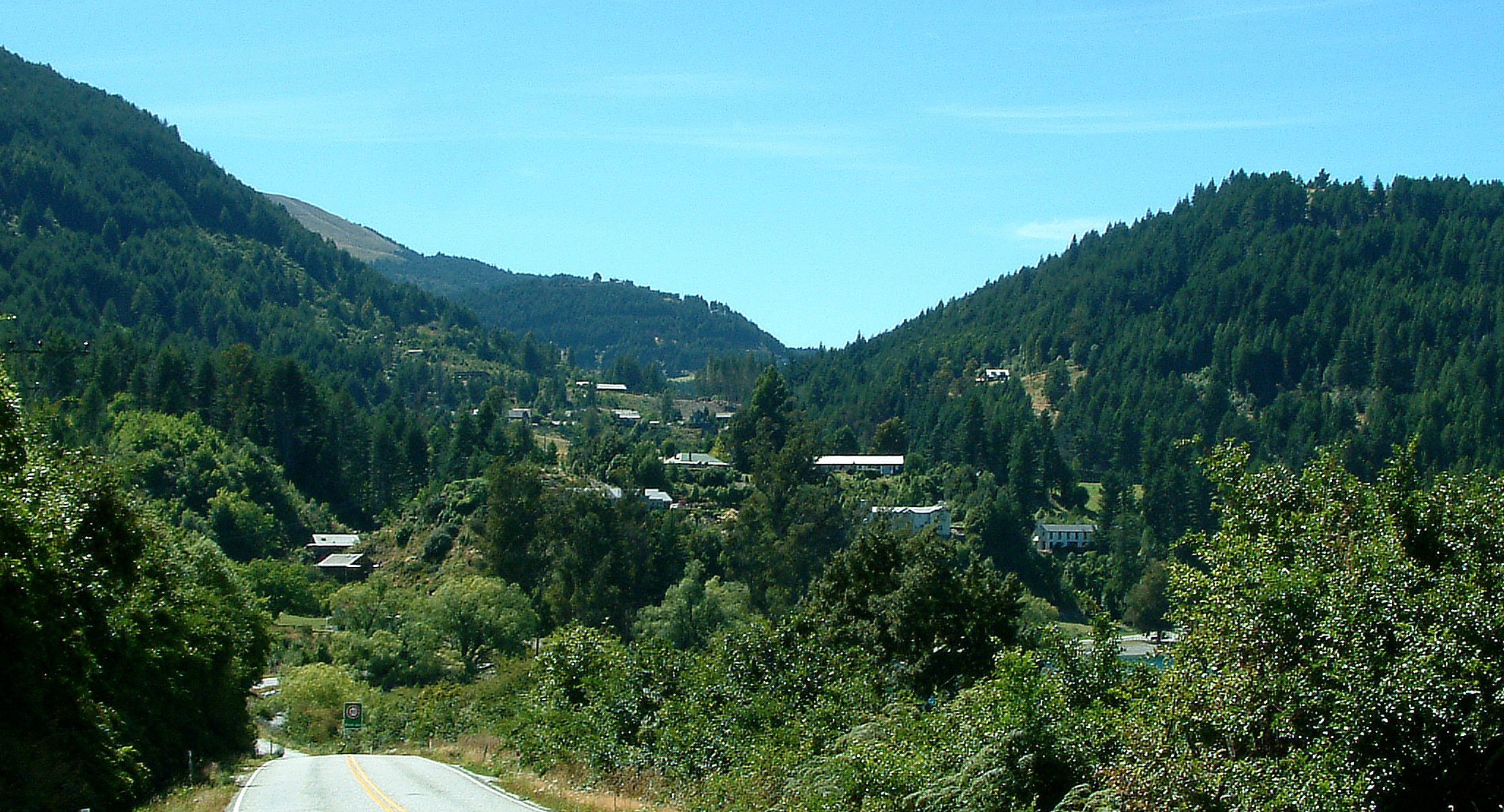 View of Closeburn near Queenstown